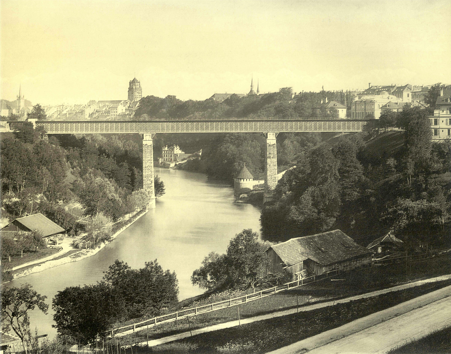 «Rote Brücke» (Red Bridge) over the Aar; Berne, Switzerland. Demolished 1941, replaced by the Lorrainebrücke and the SBB Aarebrücke. Below the bridge the «Blutturm» and in the background the Münster as before 1889.